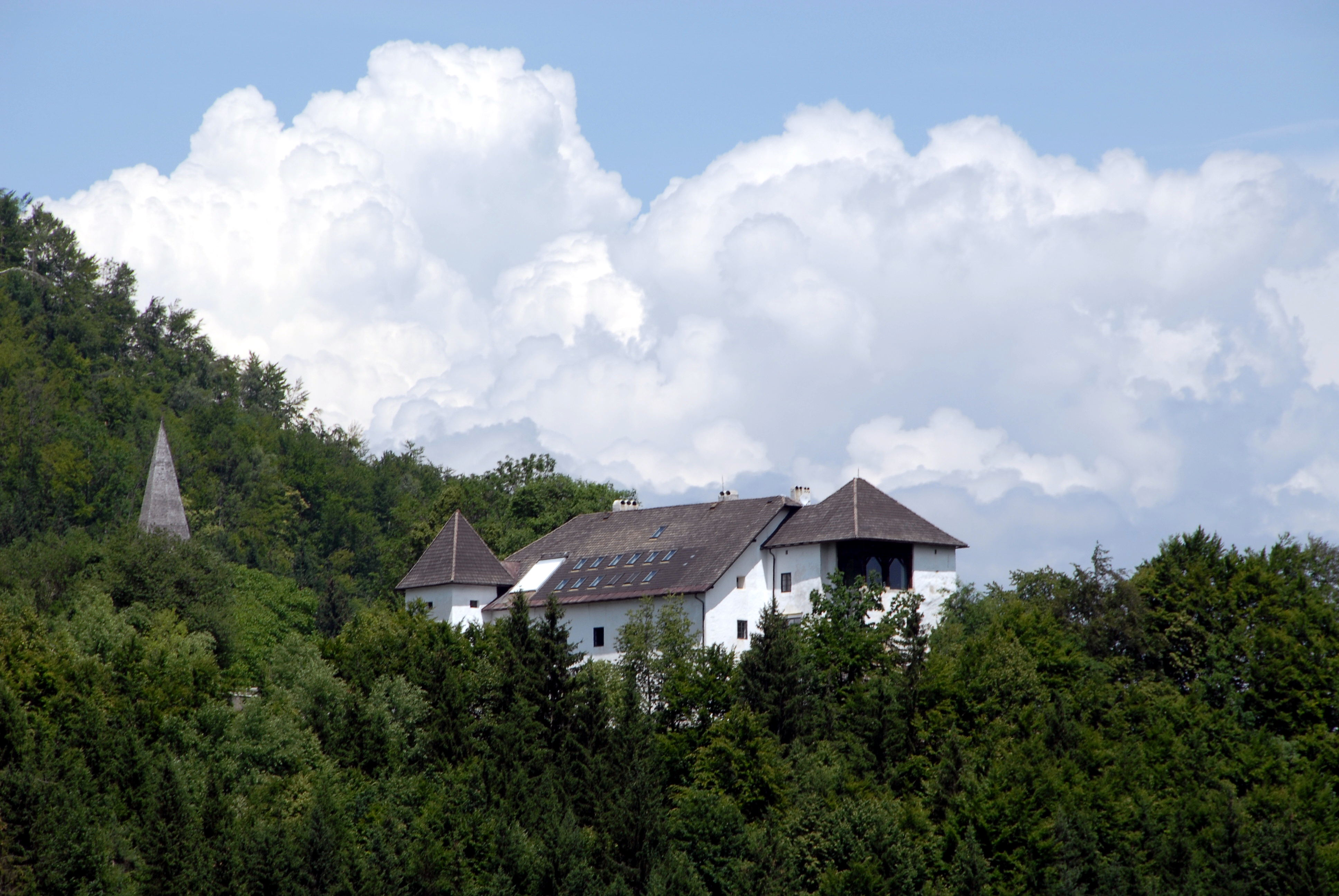 Castle Saager (propriety of the sculpturist and painter Giselbert Hoke) in the municipality Grafenstein, district Klagenfurt-Land, Carinthia, Austria